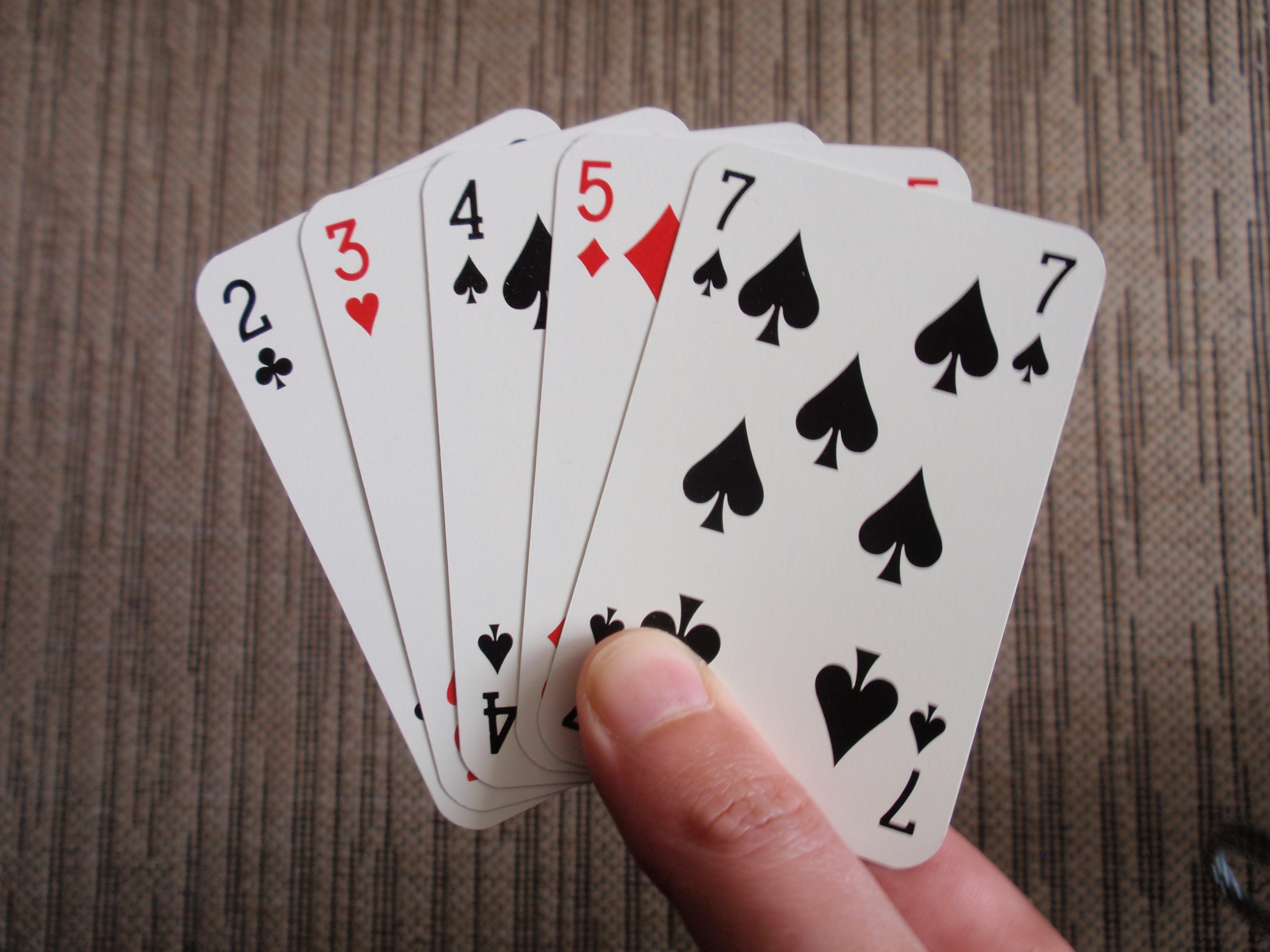 Deuces to Seven Draw (2-7 Draw) - ideal hand